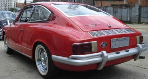 Brazilian Karmann-Ghia TC, 3/4 rear view